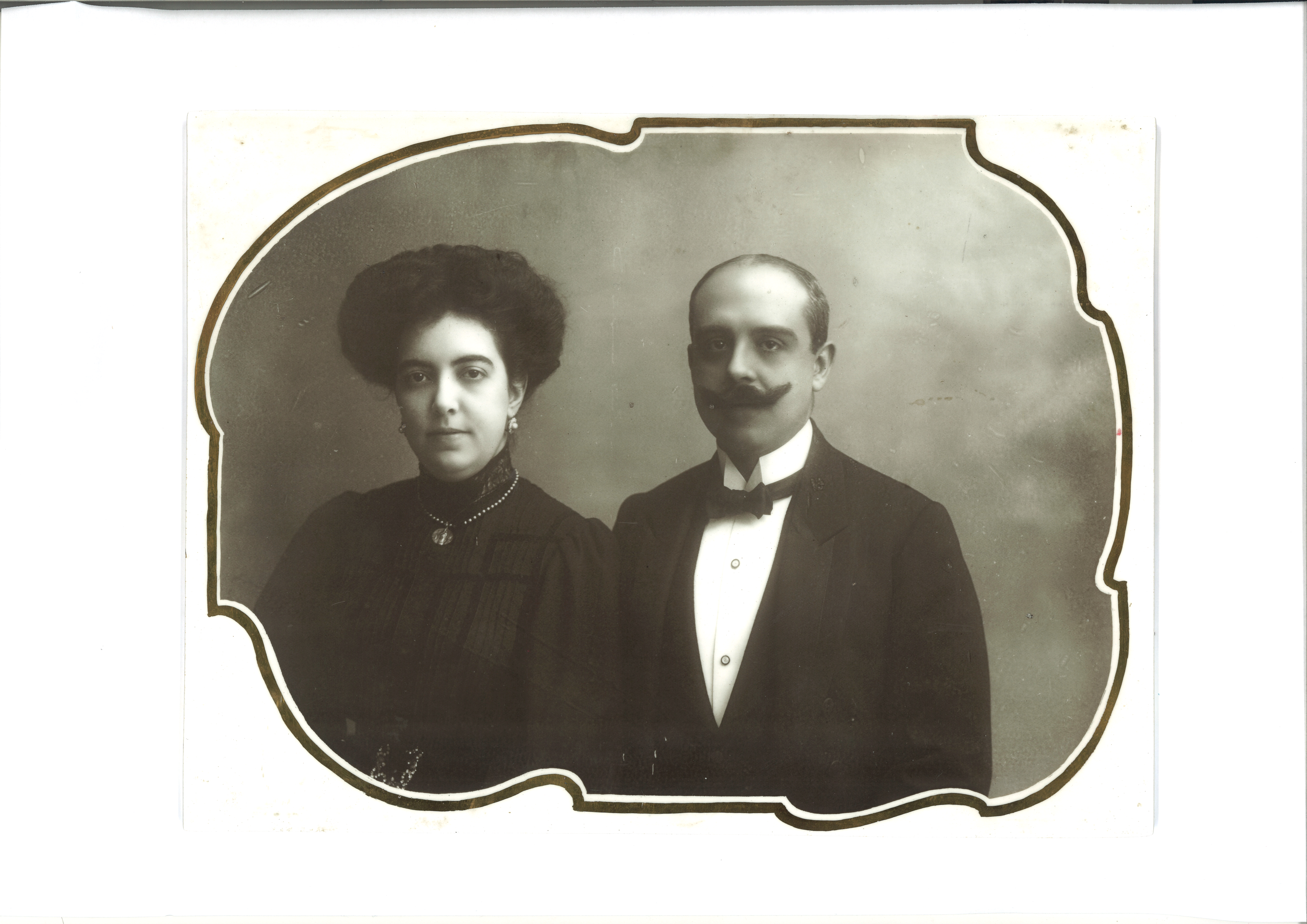 lawyer and politician of the Valencian Community. Mayor of Valencia (1907-1909)